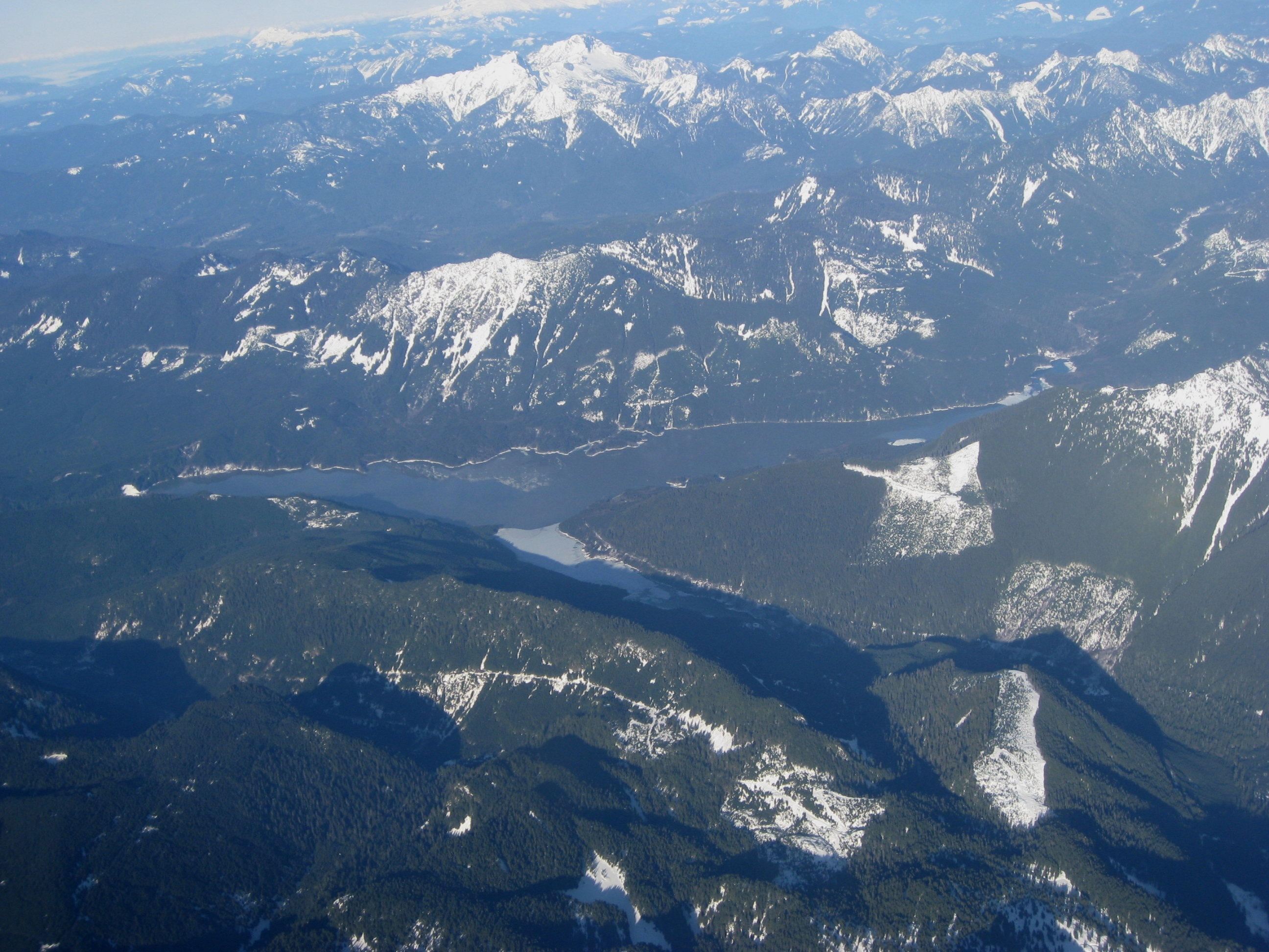 Spada Lake west of Glacier Peak